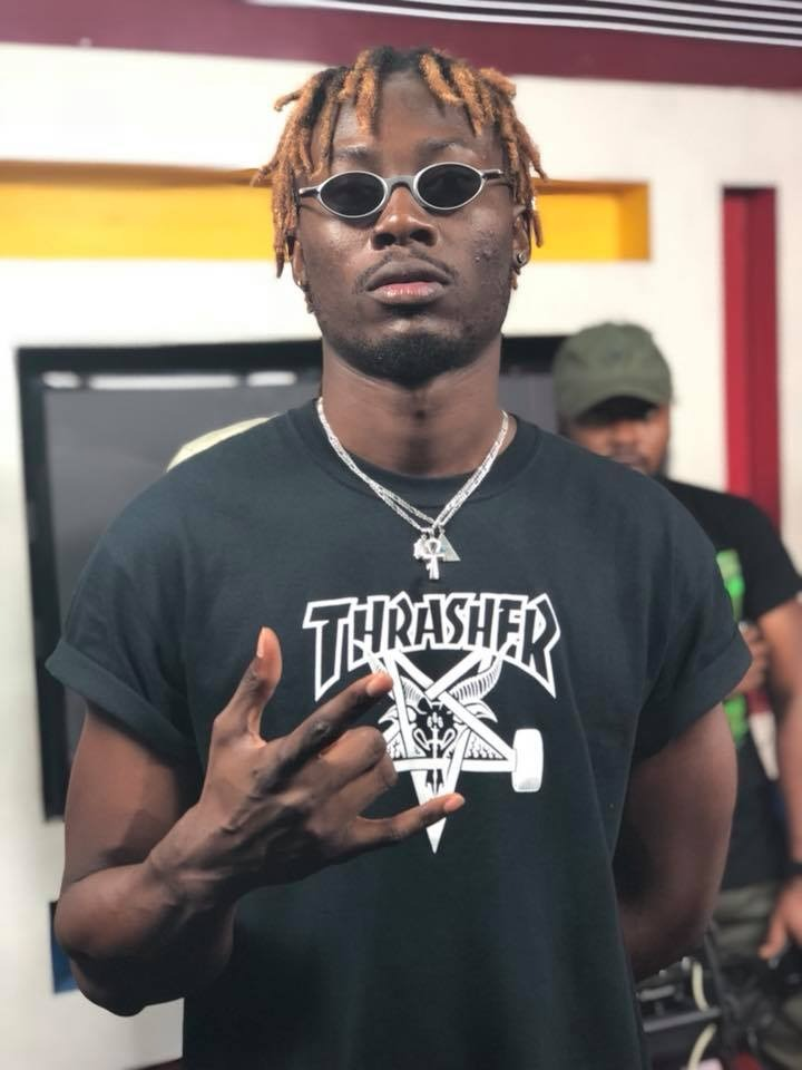 Ayat promoted MADFest17 at Spyderlee Tv